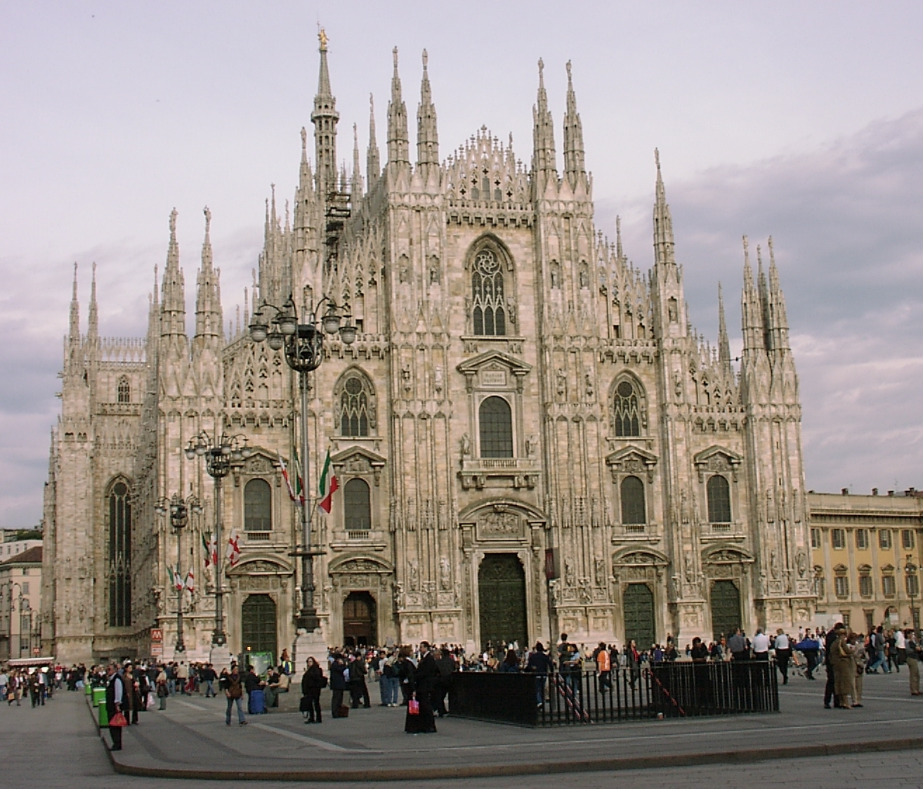 Front of the Milan cathedral